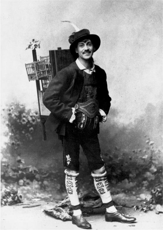 Alexander Girardi, austrian actor; Seen as „Adam“ in: Carl Zeller: Der Vogelhändler